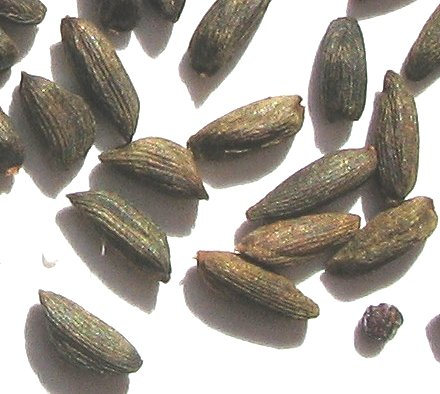 Garlic Mustard (Alliaria petiolata), seeds. The numbers on the scale are centimeters.